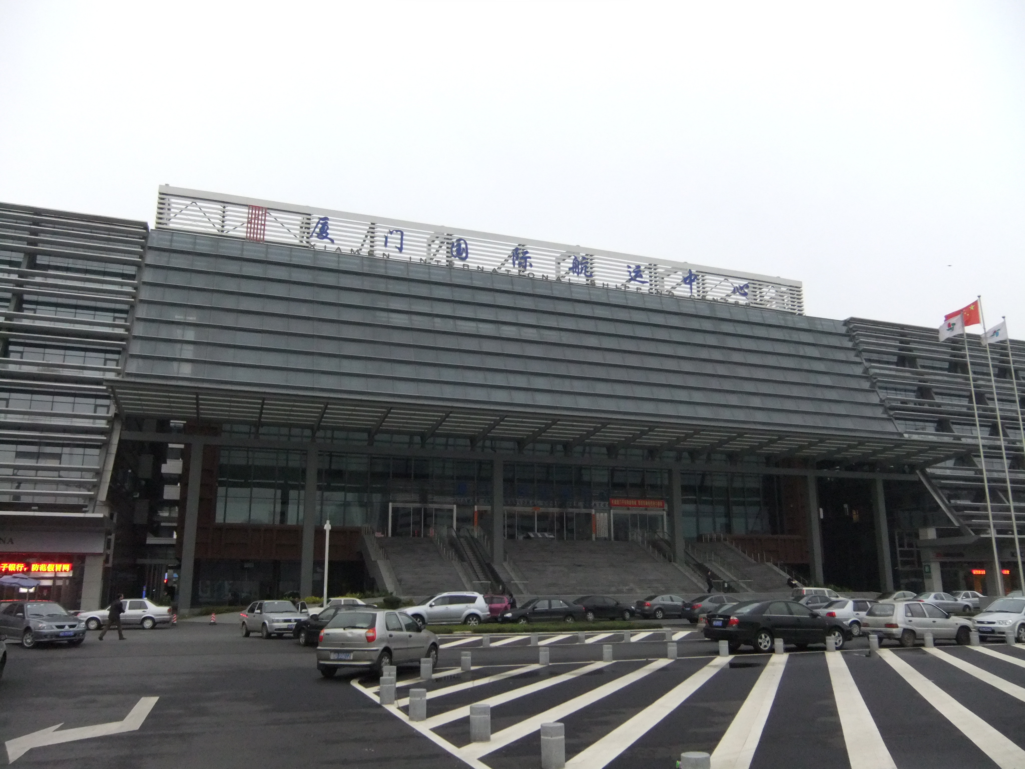 Headquarters of "Xiamen International Transportation Center", in the Port of Xiamen. (Huli District, in the north-western part of Xiamen Island).